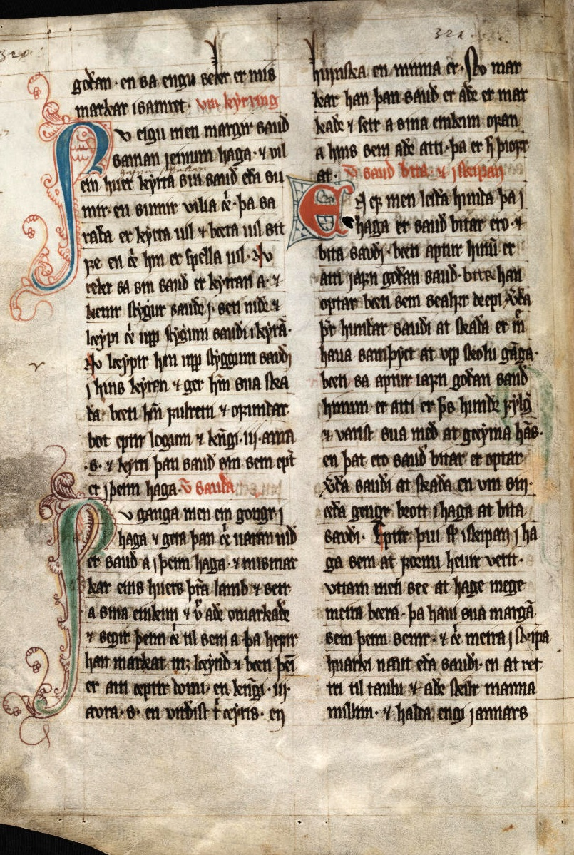 The Sheep Letter for the Faroe Islands of 24 June 1298, in the "Book of Lund".